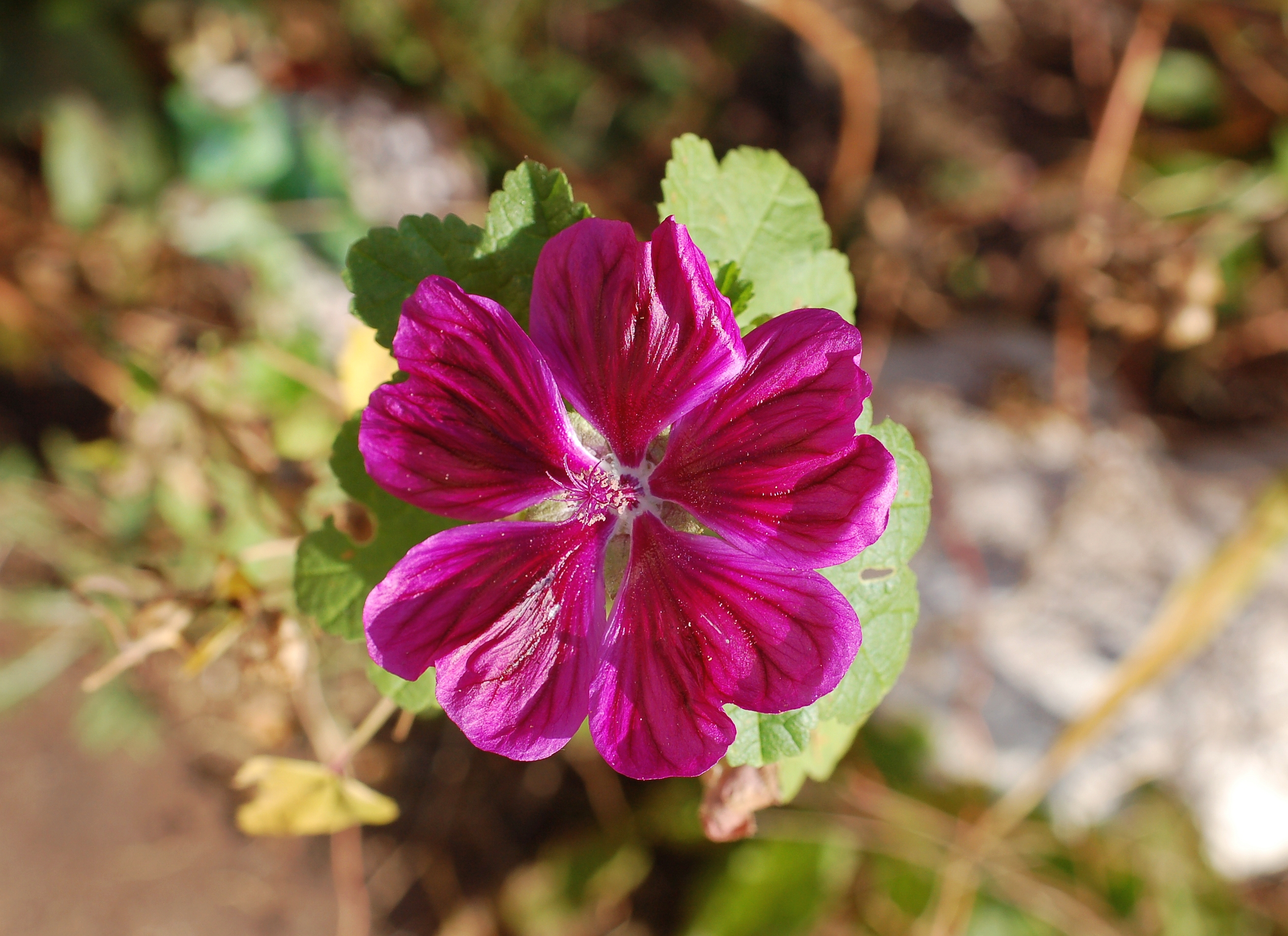 Malva sylvestris